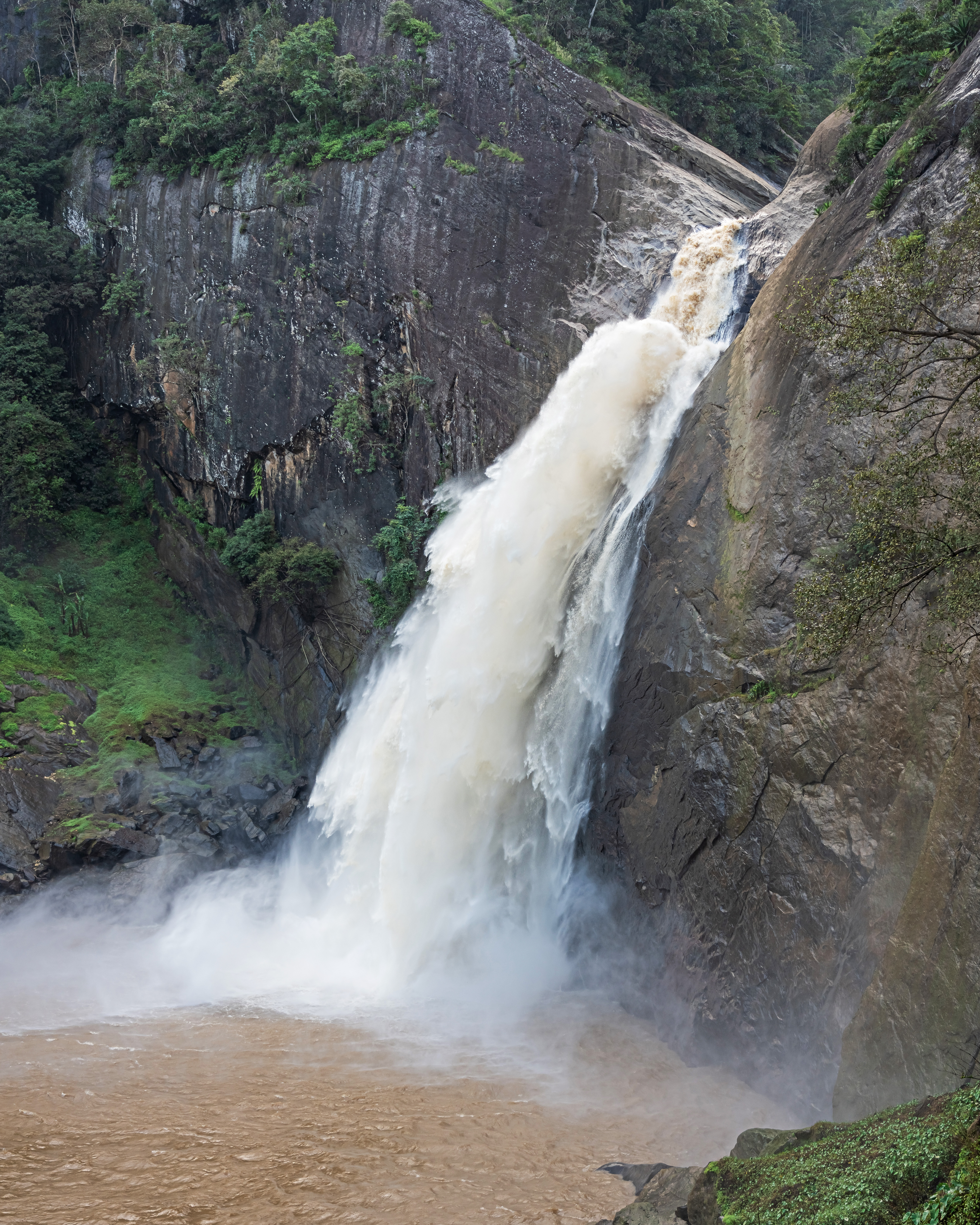 Dunhinda Falls in Badulla, Sri Lanka